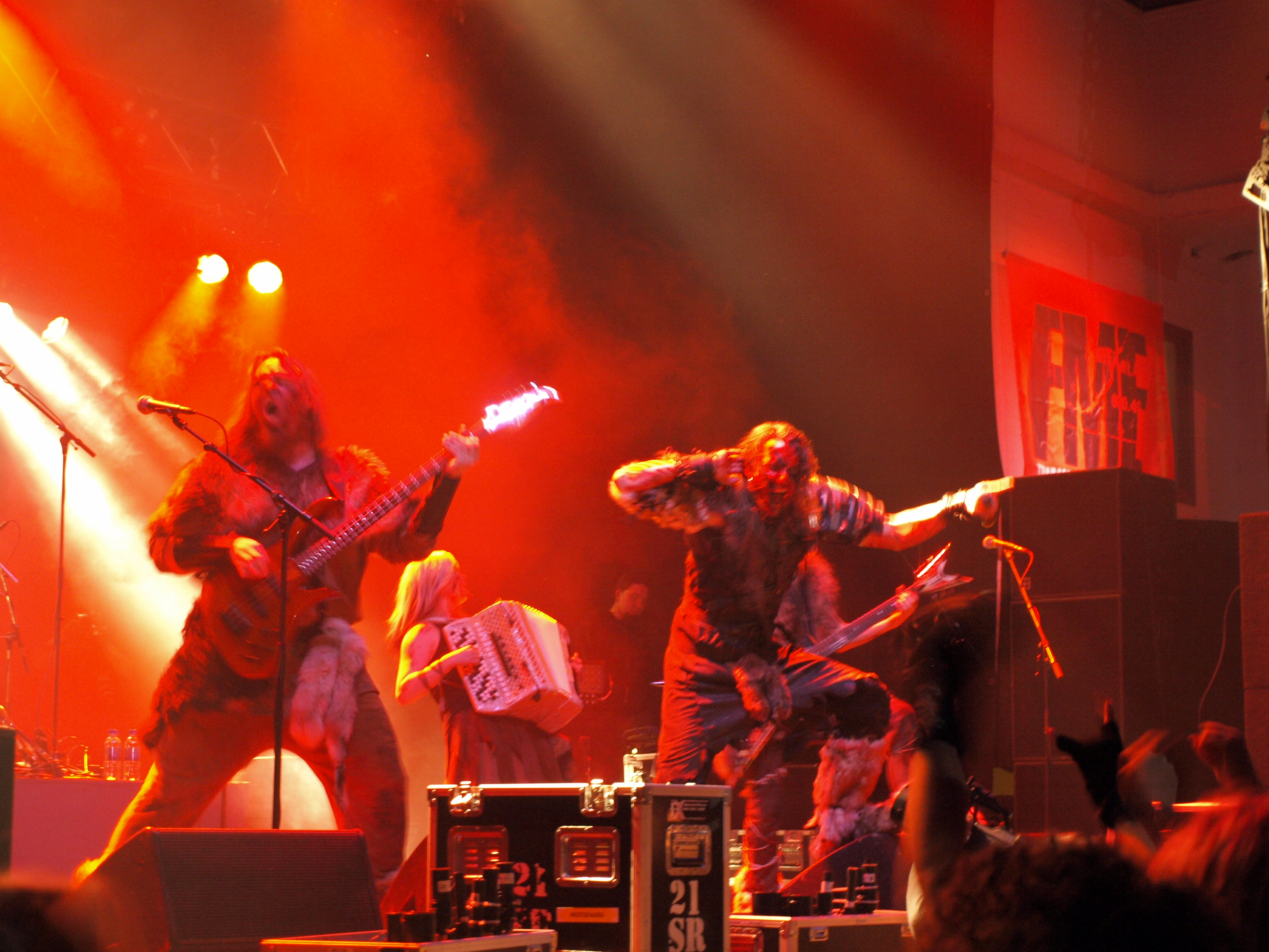 Finnish viking metal band Turisas